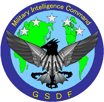 Military Intelligence command,GSDF